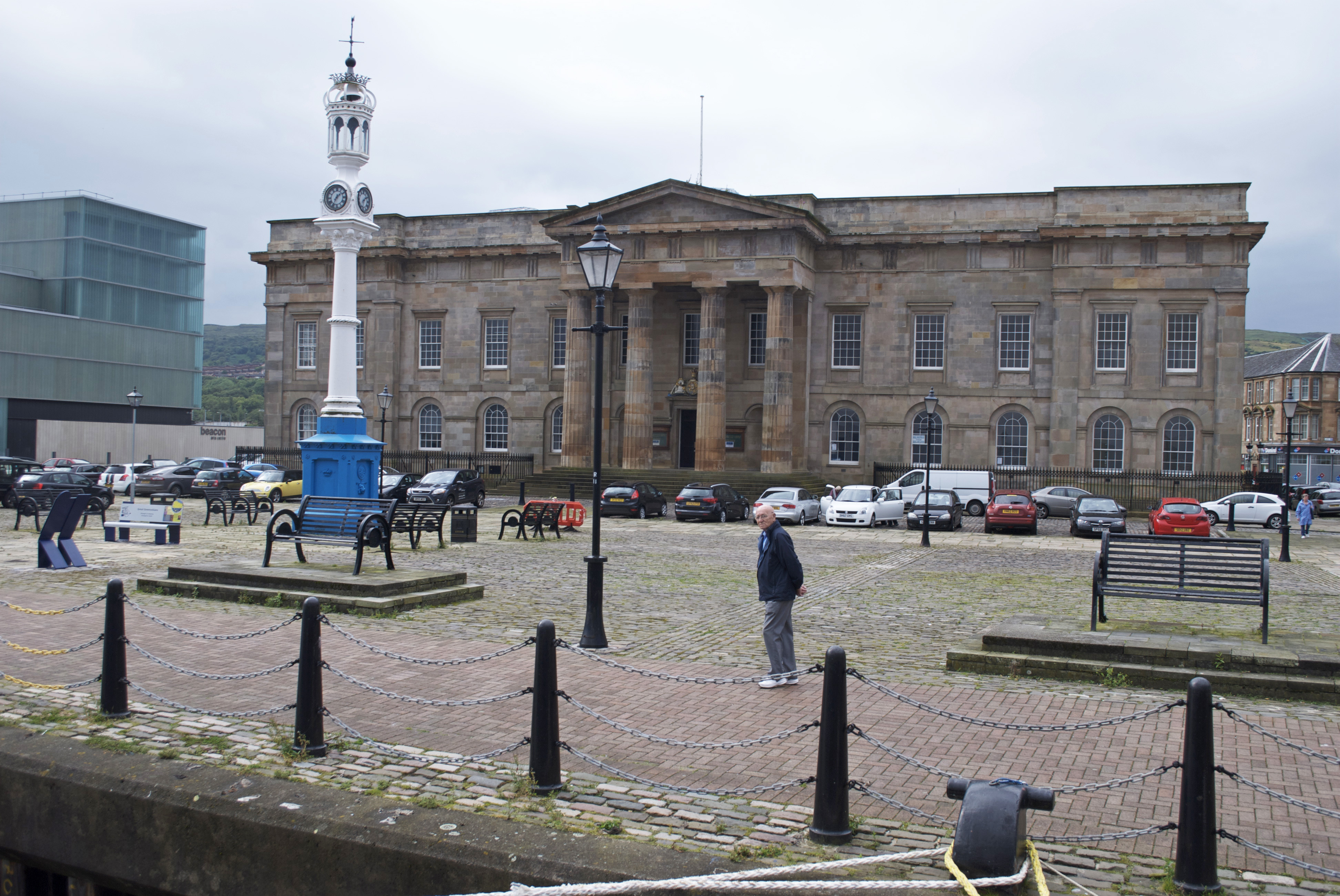 Greenock Custom House, seen across Custom House Quay from the Waverley